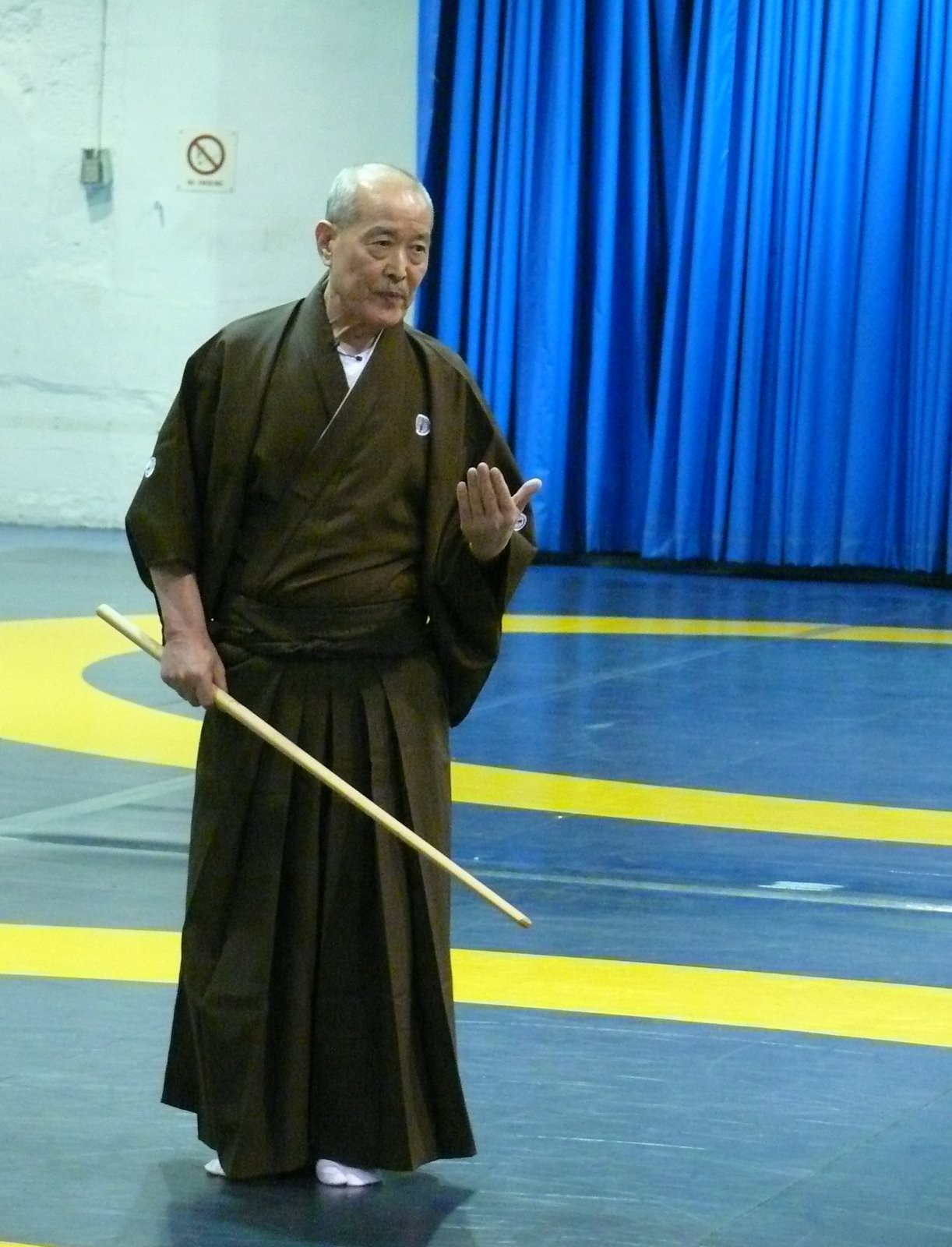 Takashi Kushida sensei on annual Aikido Yoshokai demo, Apr 21, 2007, Ann Arbor, MI, USA